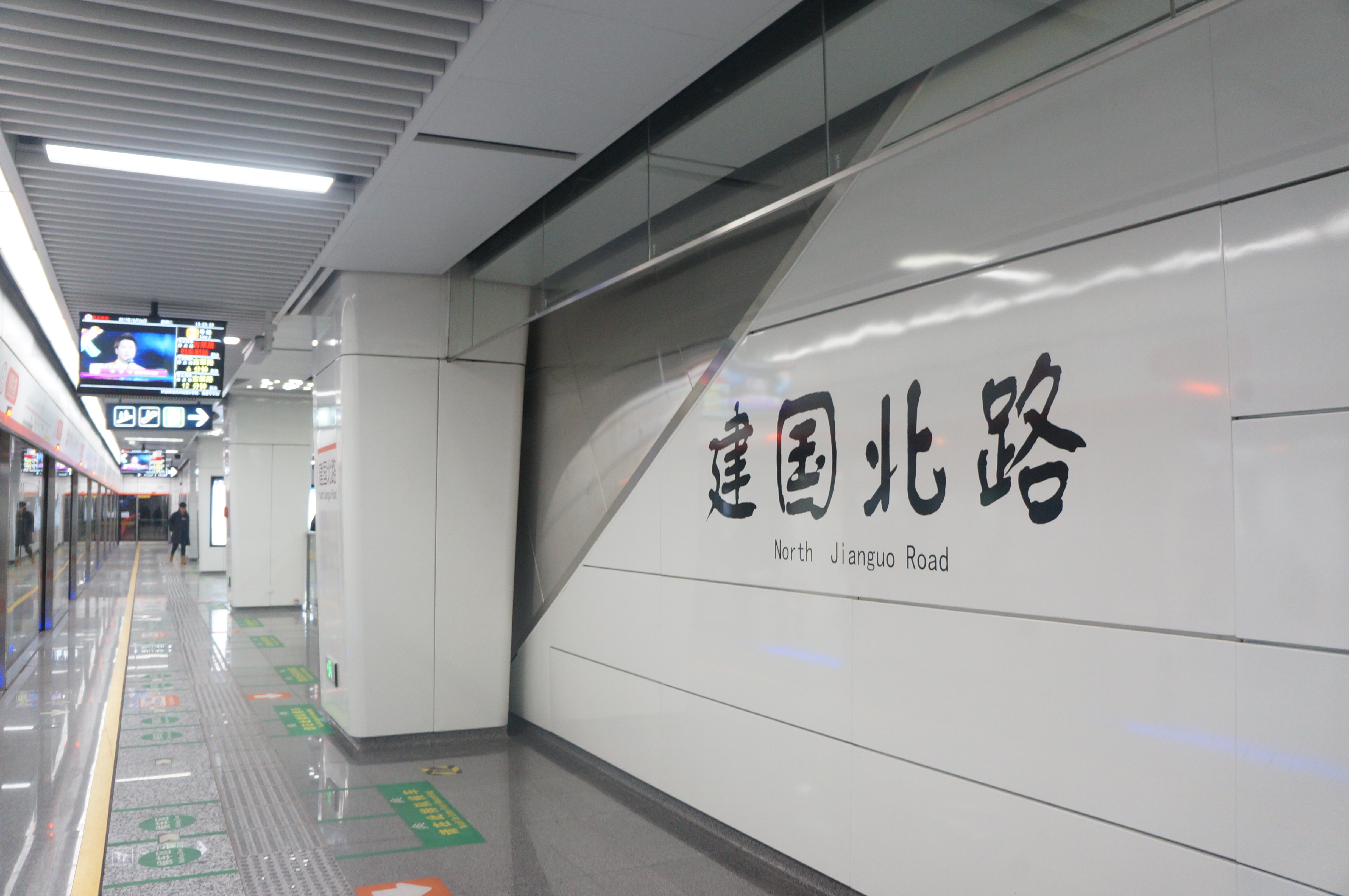 201712 Nameboard of North Jianguo Road Station